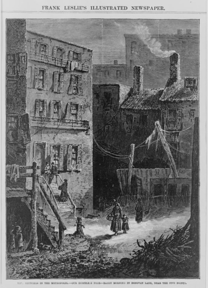 Life sketches in the metropolis - Our homeless poor - Early morning in Donovan Lane, near the Five Points Homeless people in slum neighborhood Slums--New York (State)--New York--1870-1880. Homeless persons--New York (State)--New York--1870-1880.